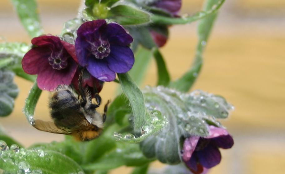 Cynoglossum officinale: Flowers (and bee).